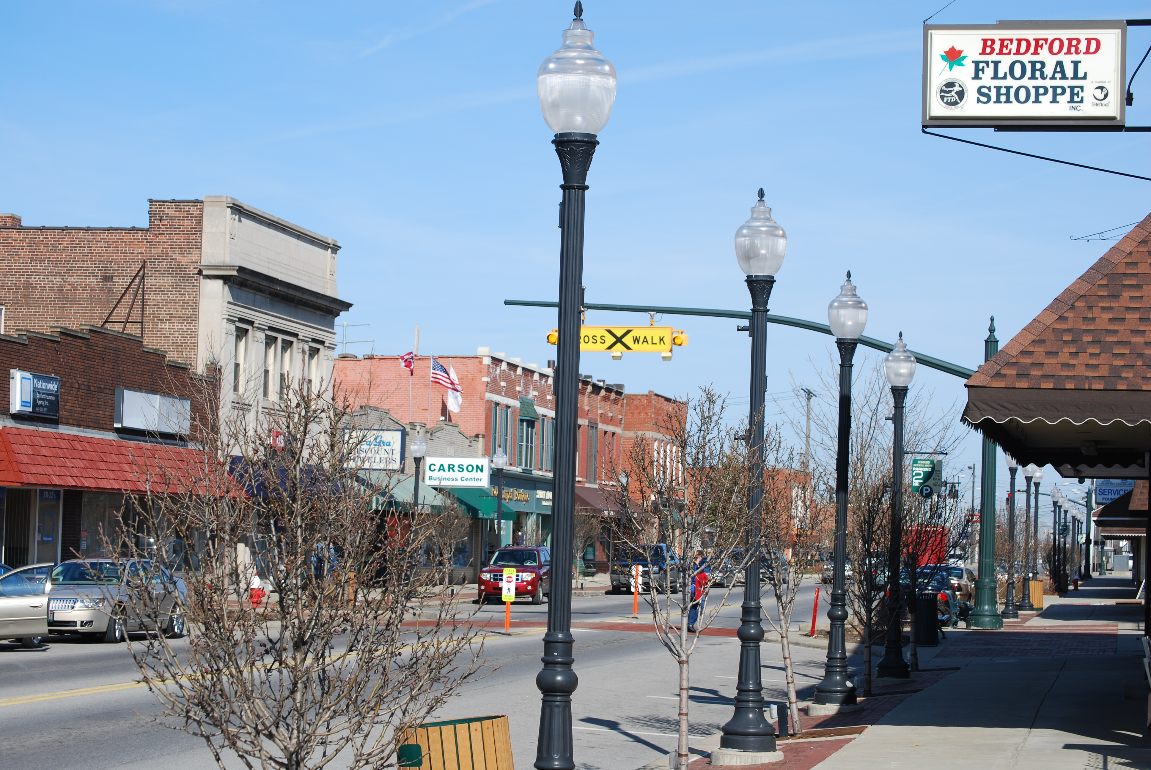 Bedford Historic District, Roughly bounded by Willis St., Franklin St., Broadway Ave., and Columbus Rd. Bedford